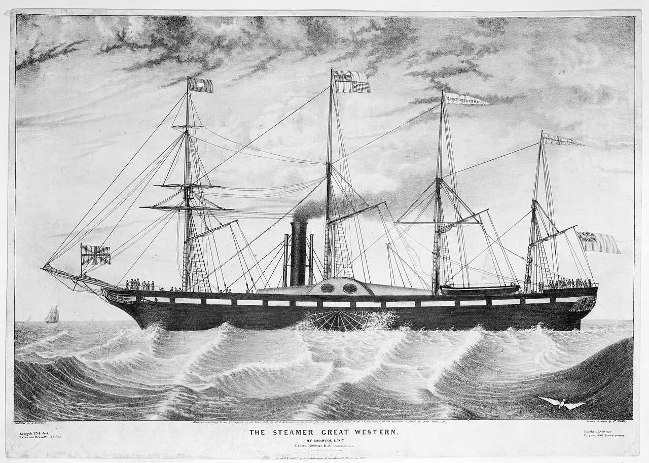 The Steamer Great Western of Bristol This lithograph depicts the ‘Great Western’, which was the first purpose-built transatlantic steamship. Designed by Isambard Kingdom Brunel and launched in Bristol in 1837, she established the advantage of steam over sail for transatlantic travel, becoming the model for successive Atlantic paddle steamers. In this picture she is travelling under steam only, her sails furled and flags flying from all four masts, her bow and her stern. The ship’s name can be read on the mizzen mast pennant. The scene is enlivened by figures fore and aft and by a detailed sea of regular, stylised waves with flecks of foam. A lone seagull cruises above the water in the lower right of the picture and vessels leaning under sail can be seen in the background left. The Steamer Great Western. H.R. Robinson.